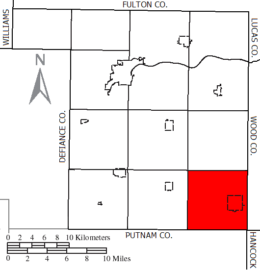 Made by the US Census and modified by myself